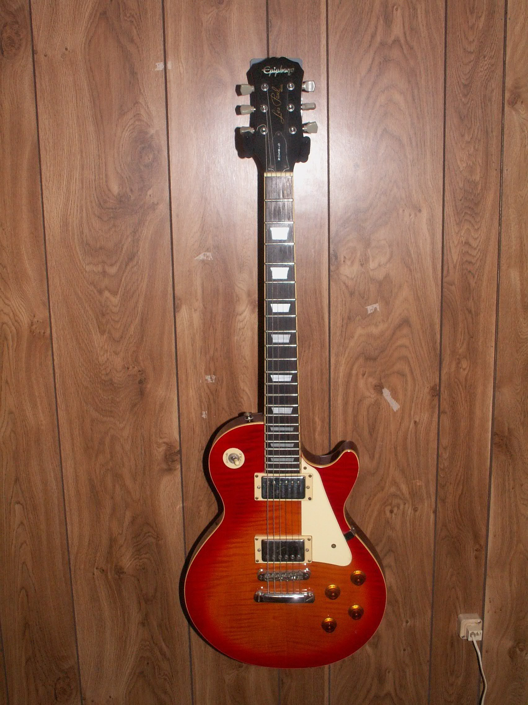 My 1995 Epiphone Les Paul cherry sunburst color. Taken with my digital camera.